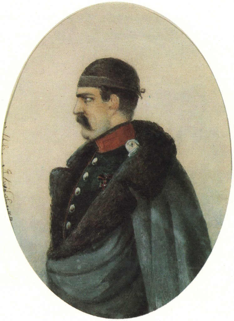 Yakubovich Alexander Ivanovich (by Petr Karatygin)